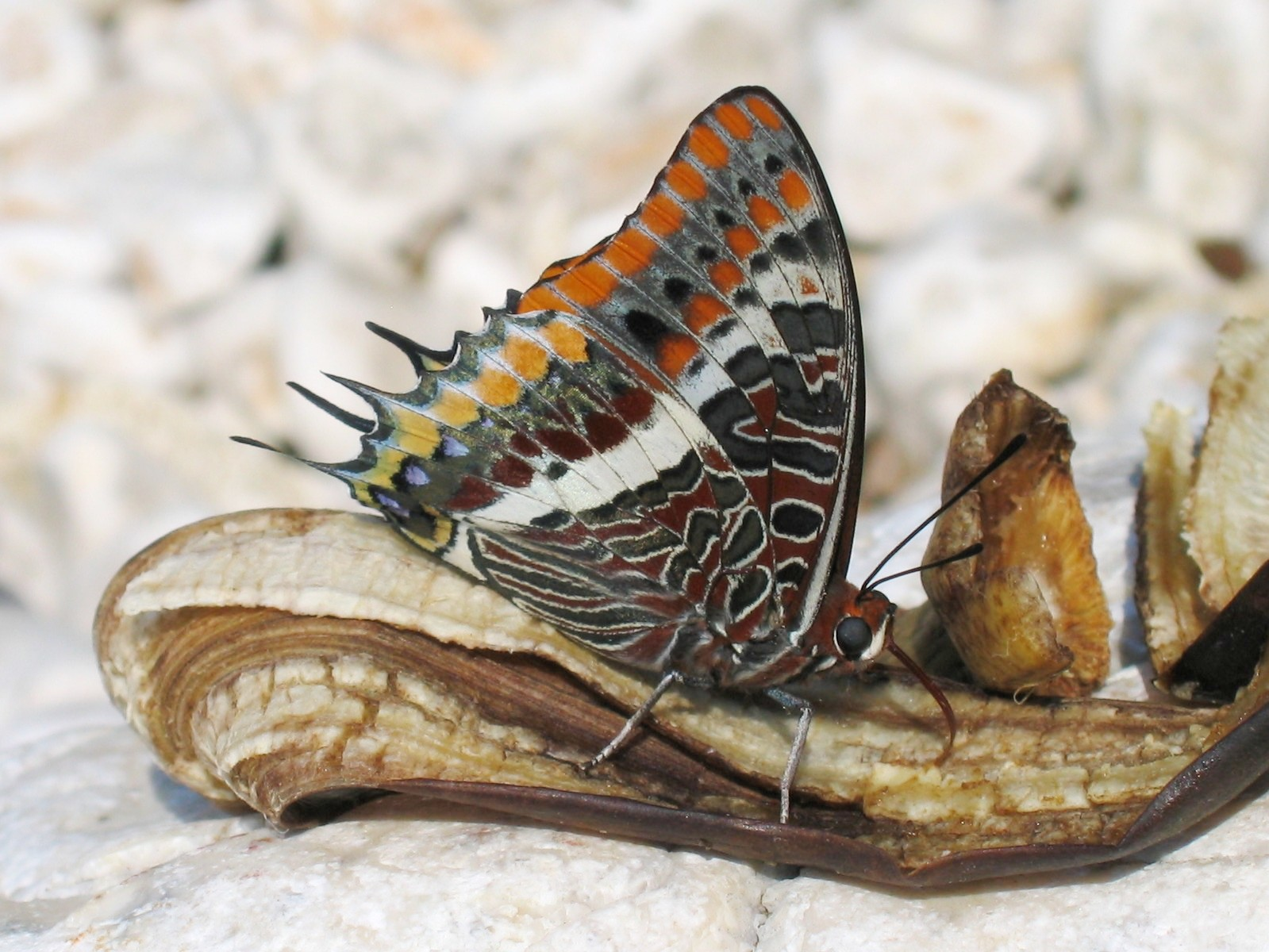 Two-tailed Pasha, Croatia, Istria